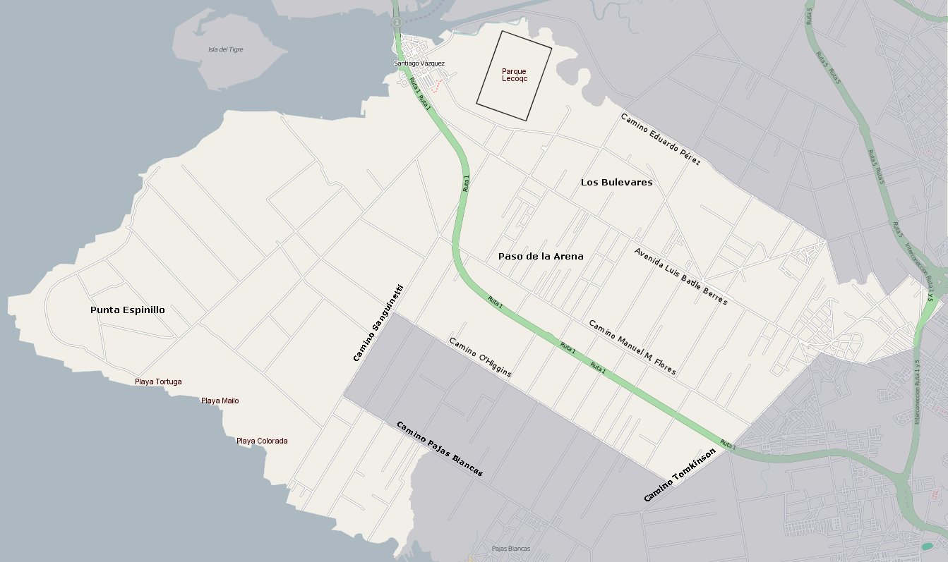 Street map of Paso de la Arena, Montevideo, exported from OpenStreetMap. I added shading to delimit the barrio. This map may be incomplete, and may contain errors. Don't rely solely on it for navigation.